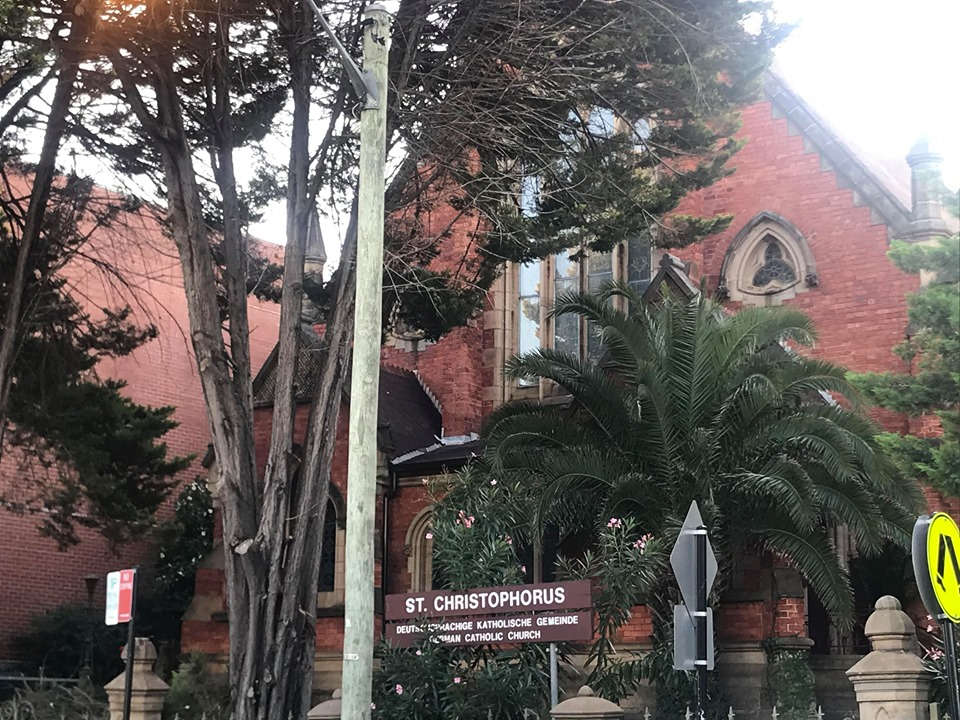 German-Speaking Catholic Parish in Croydon, Sydney Australia. 112 Edwin St, Croydon NSW 2132